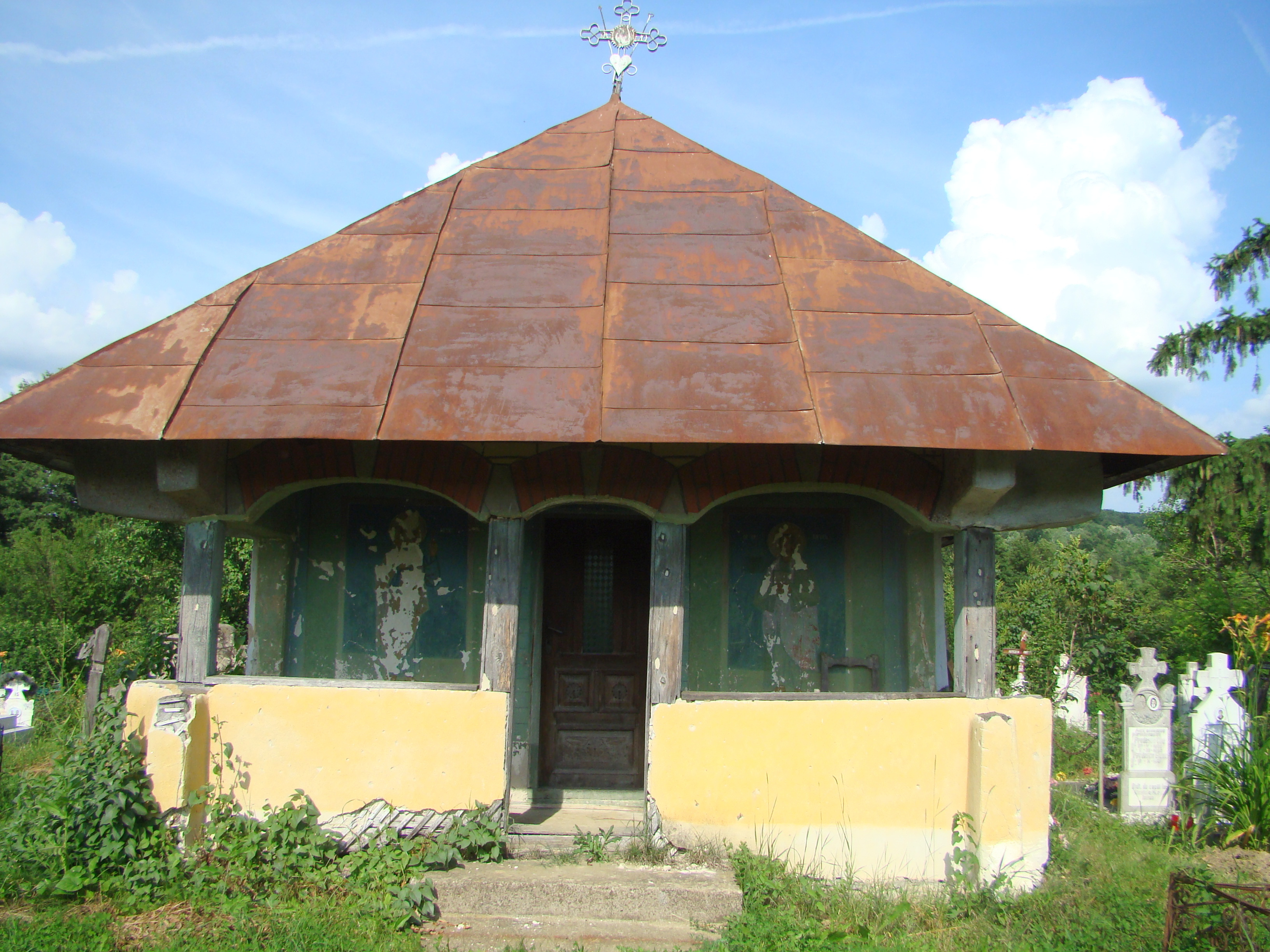 Wooden church in Mușetești-Sârbești, Gorj county, Romania